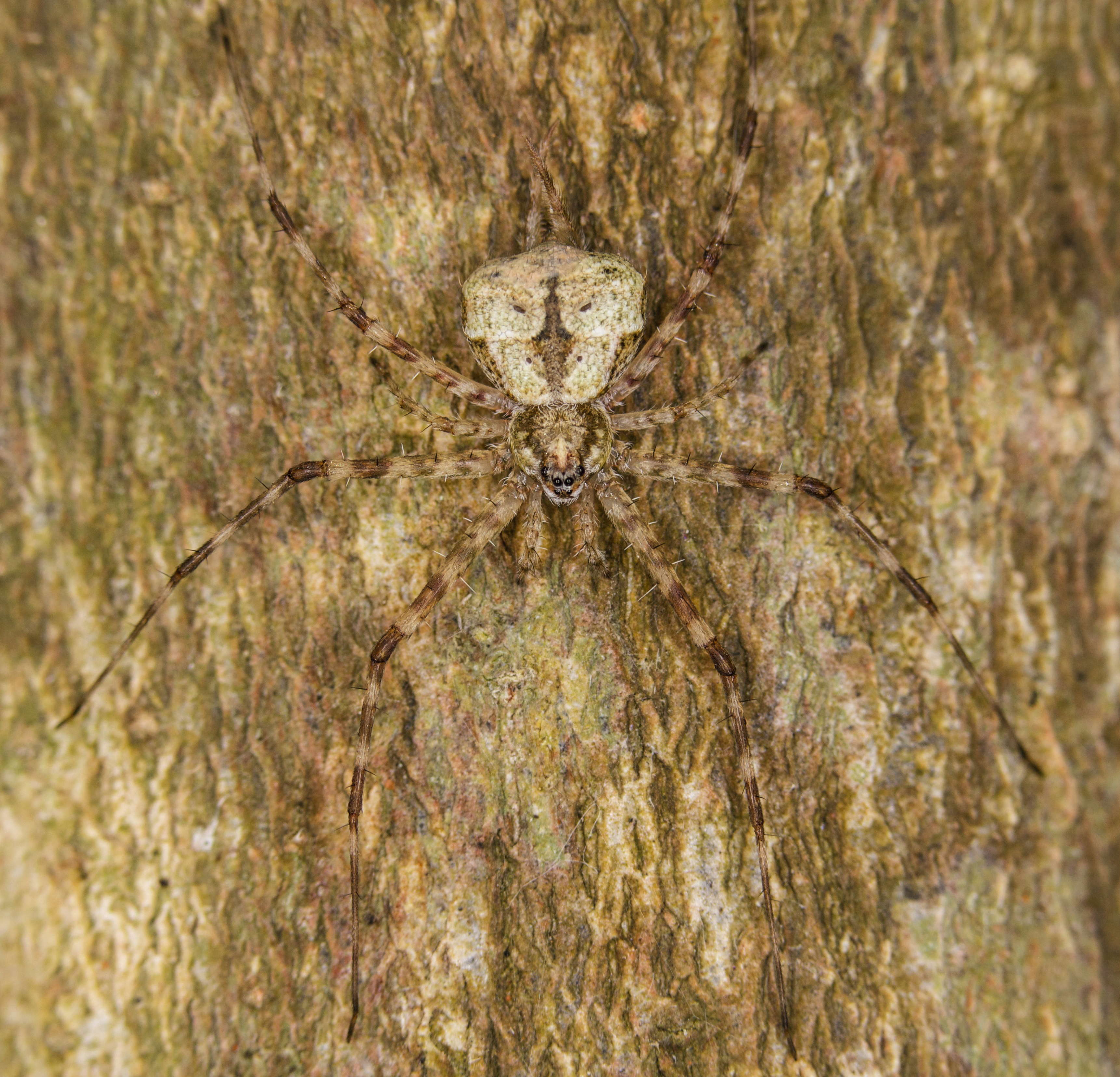 Common two tailed spider